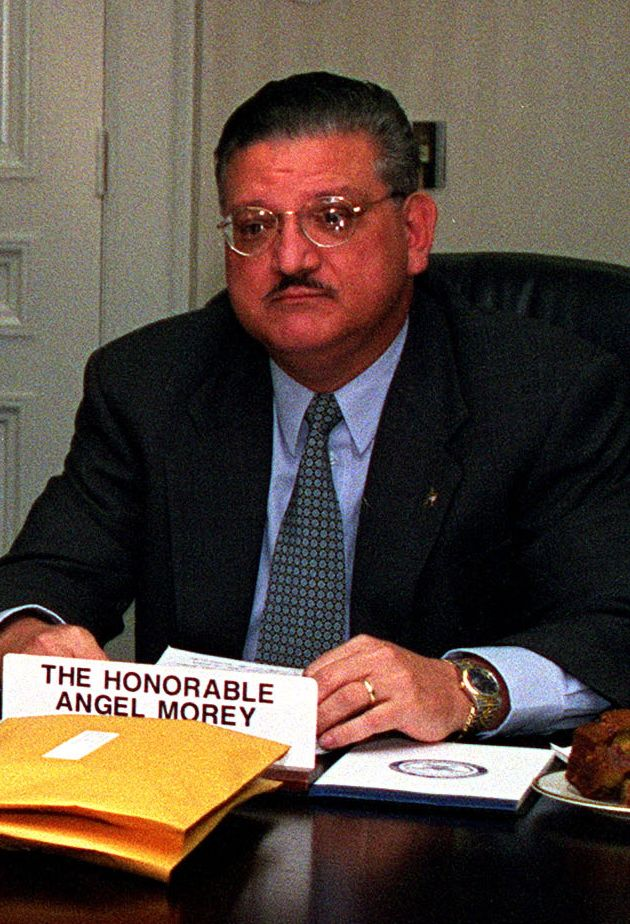 Morey Photo